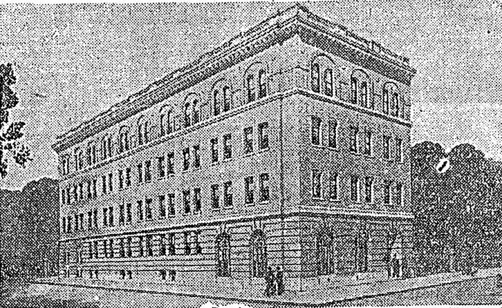 An illustration of the Bentmere Hotel from the March 5, 1916 issue of the Chicago Tribune. Hotel is located at 601 W Diversey and is now known as the Inn at Lincoln Park.